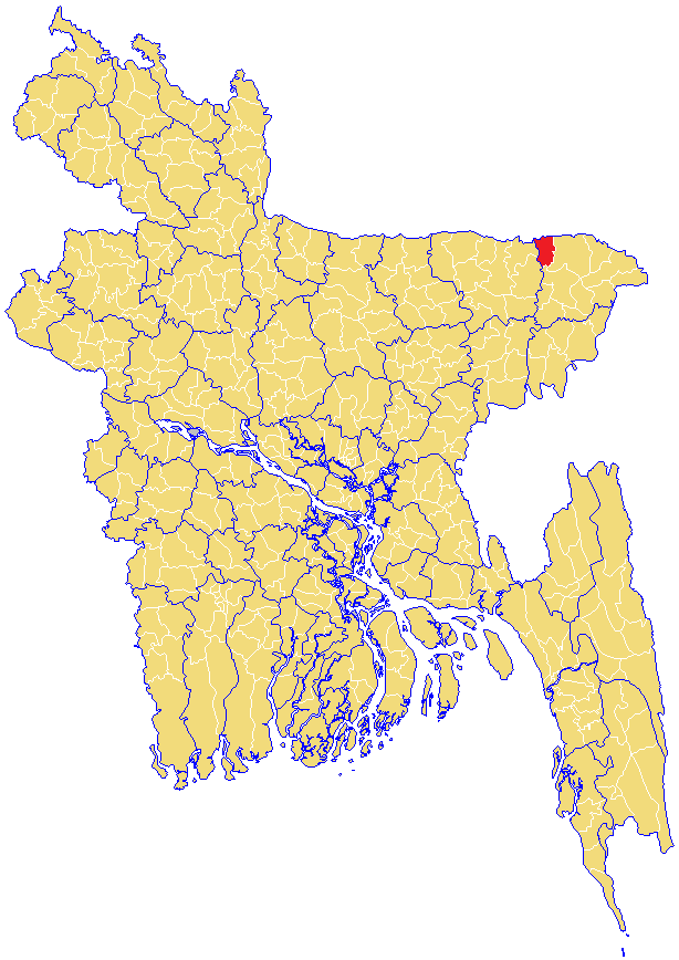 Map of Companiganj Upazila in Sylhet District, Sylhet Division, Bangladesh